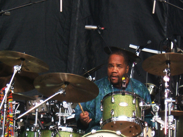 Mountain Jam 2009 - May 31, 2009 - Day 3 - The Derek Trucks Band Finally we have a photo on Yonrico Scott, the last member of the Derek Trucks Band to assemble a proper page for the band on the en.wikipedia